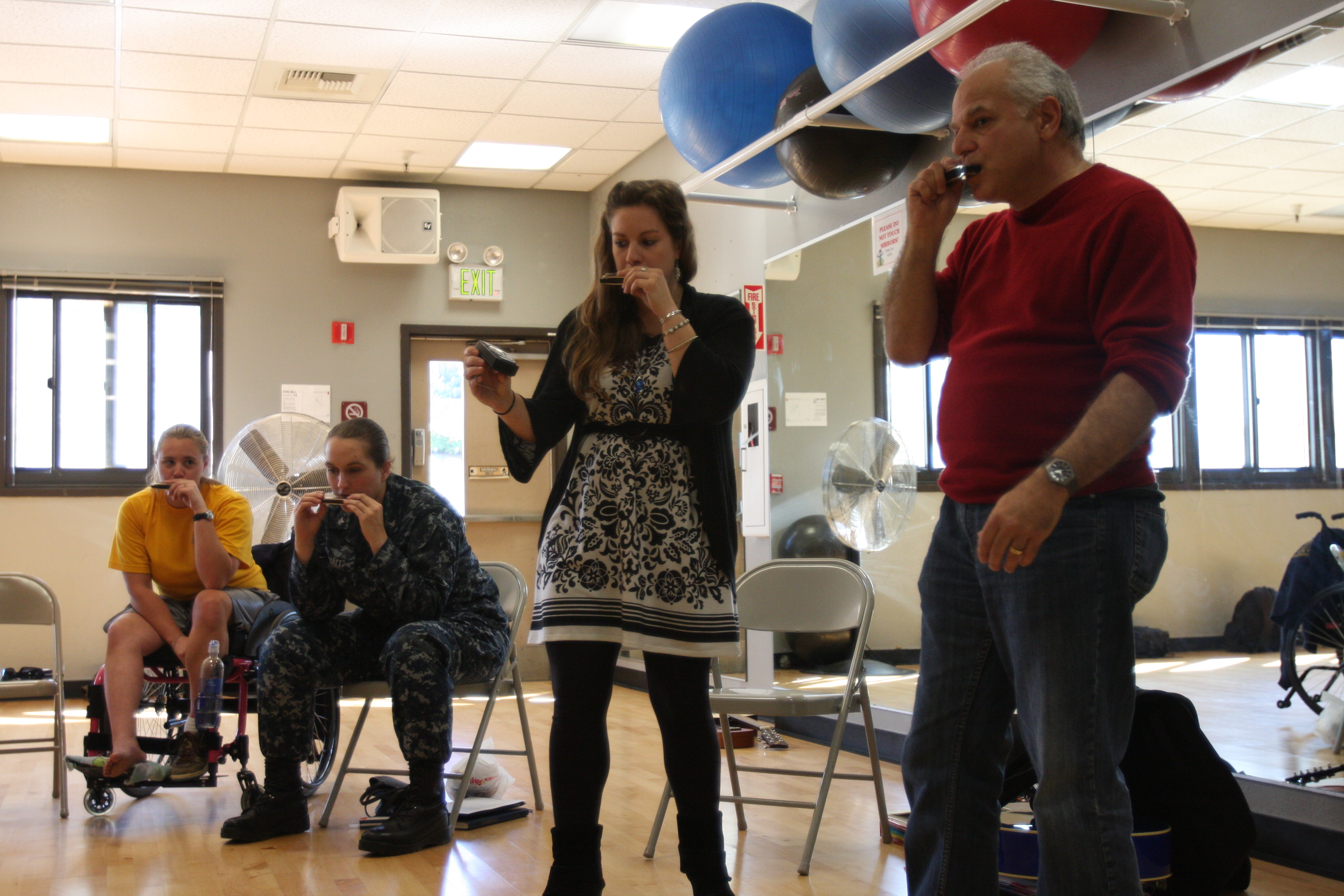 Wounded Warriors at the neurologic music therapy group at Naval Medical Center San Diego learn the harmonica Feb. 28. Music therapy helps improve motor skills, memory retention and relieves stress.